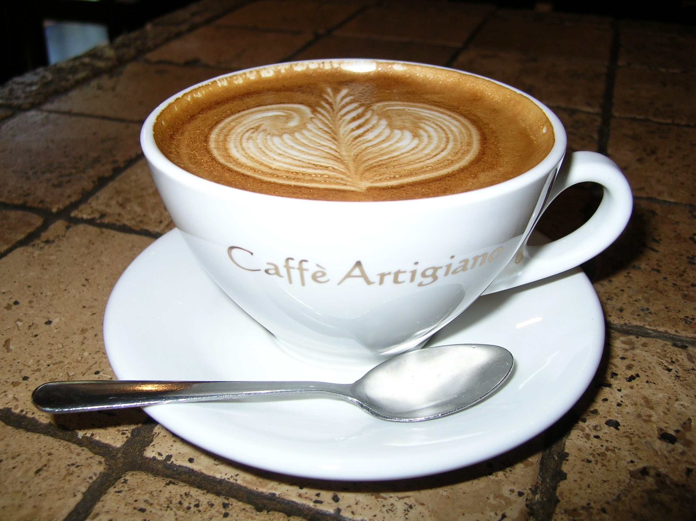 Italian's cappuccino at Caffè Artigiano.